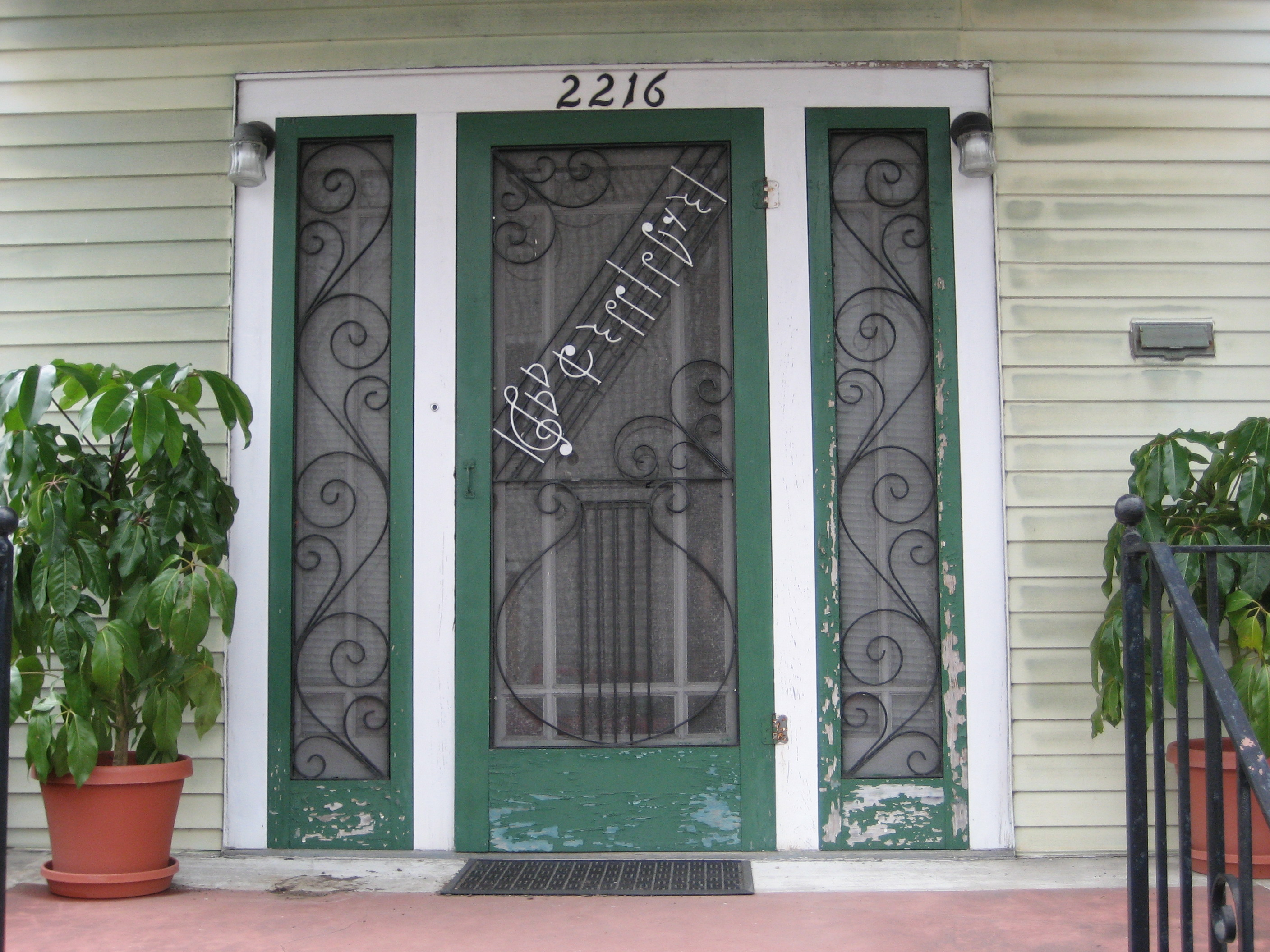 Front door of house of musician Nick LaRocca, Uptown New Orleans, with notes of start of his famous number "Tiger Rag" in the door screens.